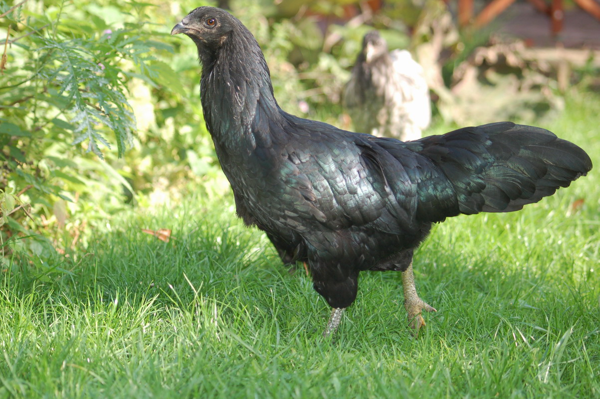 Zwarte sumatra hen foto: Wanda Zwart